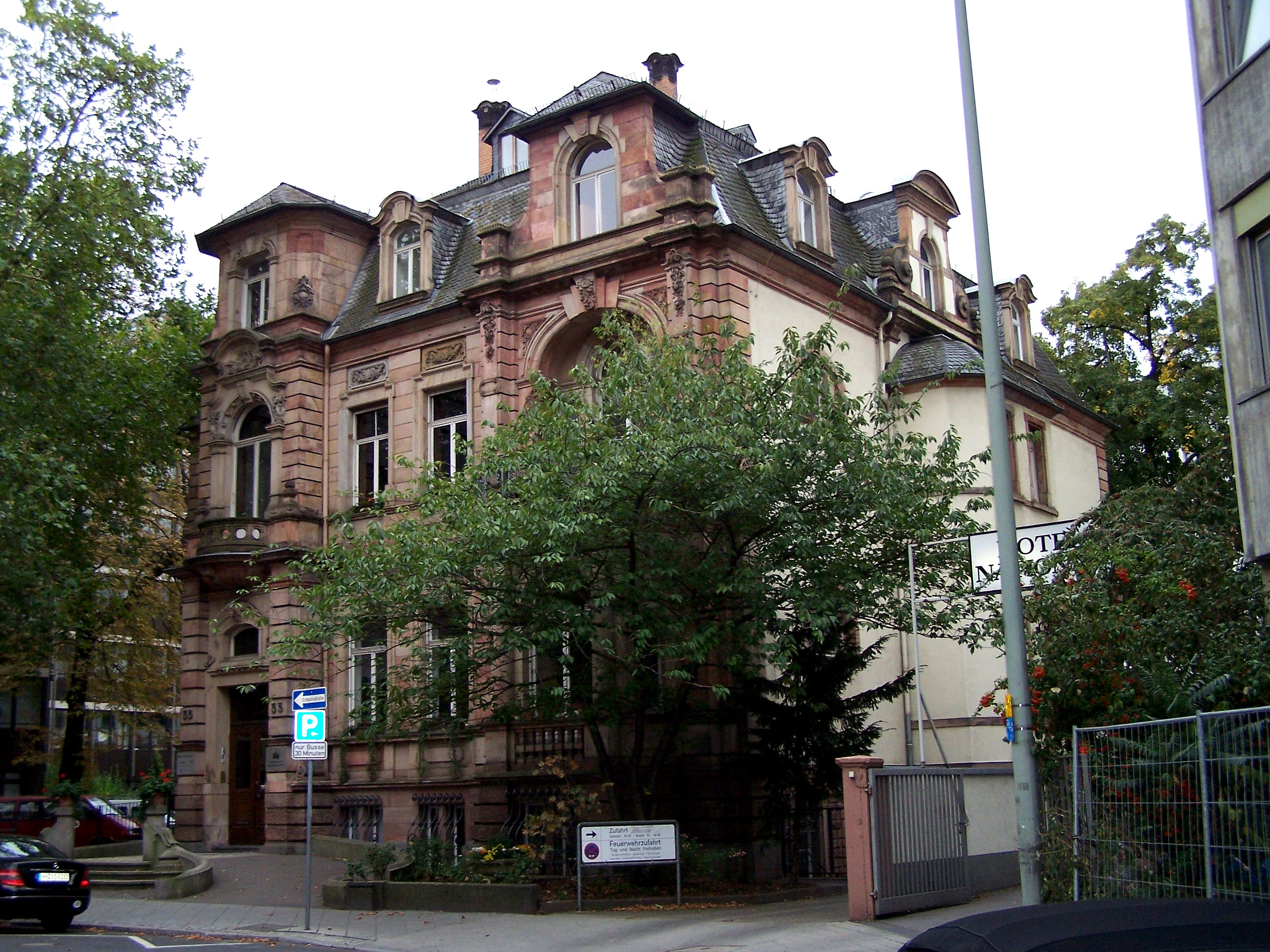 Residential building of industrialist Heinrich Kleyer in Frankfurt-Bahnhofsviertel